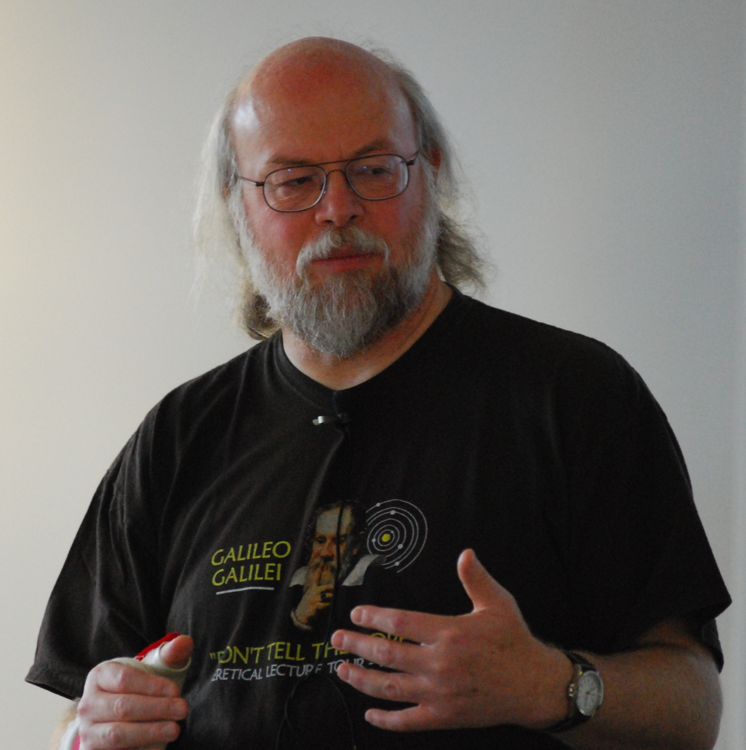 James Gosling at an Enterprise Java Australia seminar